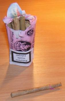 Mangalore Ganesh Beedies